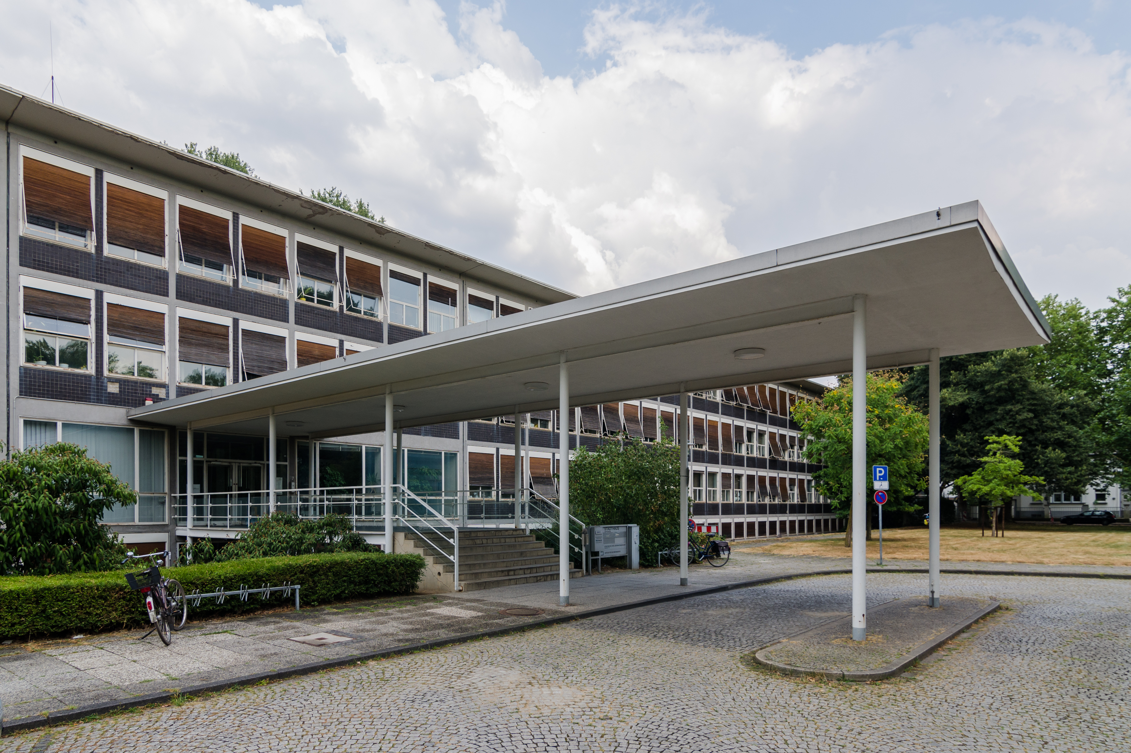 Krefeld (North Rhine-Westphalia, Germany) – district Kempener Feld – municipal house (“Stadthaus”, 1953–1956 by Egon Eiermann) – low-rise building – canopy